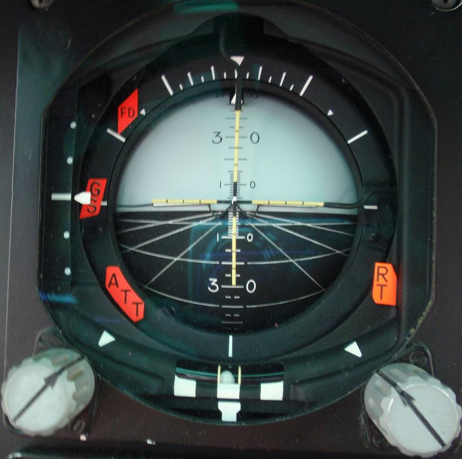 Artificial horizon